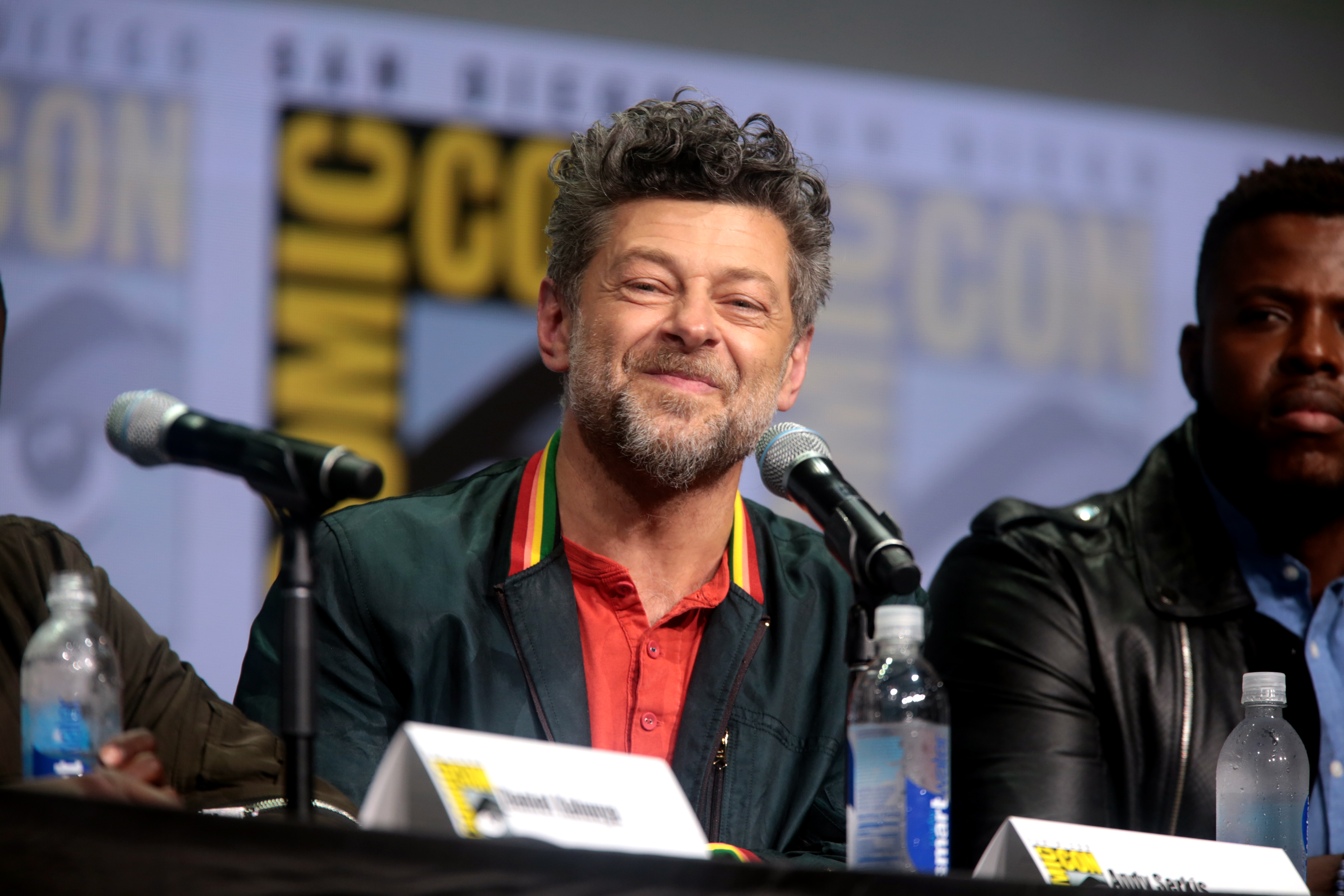 Andy Serkis speaking at the 2017 San Diego Comic Con International, for "Black Panther", at the San Diego Convention Center in San Diego, California.